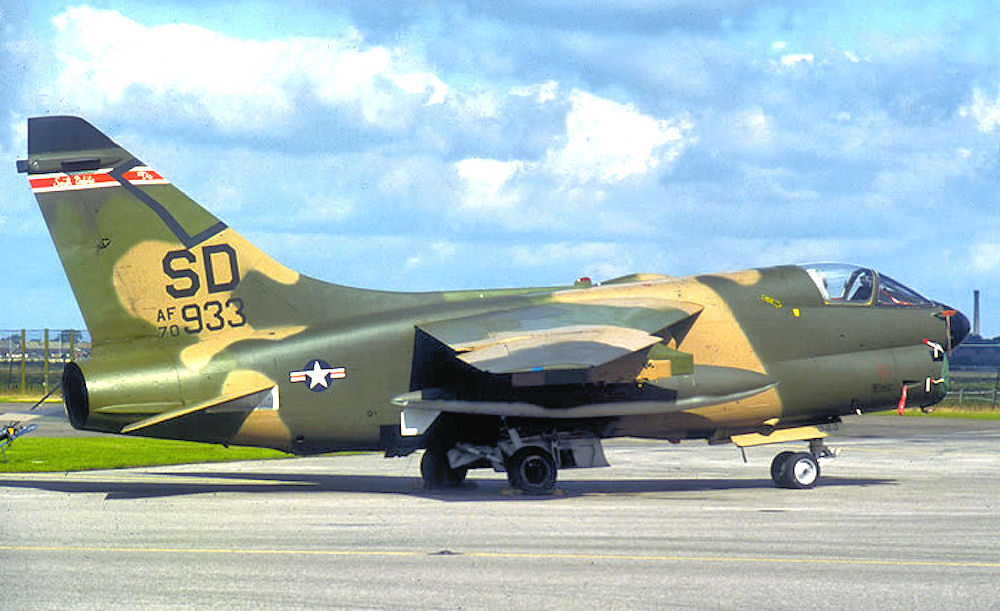 175th Tactical Fighter Squadron A-7D-7-CV Corsair II 70-0933 1972: Delivered to 354th Tactical Fighter Wing/356th TFS, Myrtle Beach AFB, SC (c/n D-079) Transferred to 175th Tactical Fighter Squadron, SD Air National Guard, 1977 Transferred to 166th Tactical Fighter Squadron, OH Air National Guard, 1988 Transferred to AMARC as AE0188 Jul 31, 1992 Disposition: 8/28/2000 / To Fritz Enterprises, Taylor, MI. (Actually to HVF West yard, Tucson). Scrapped.